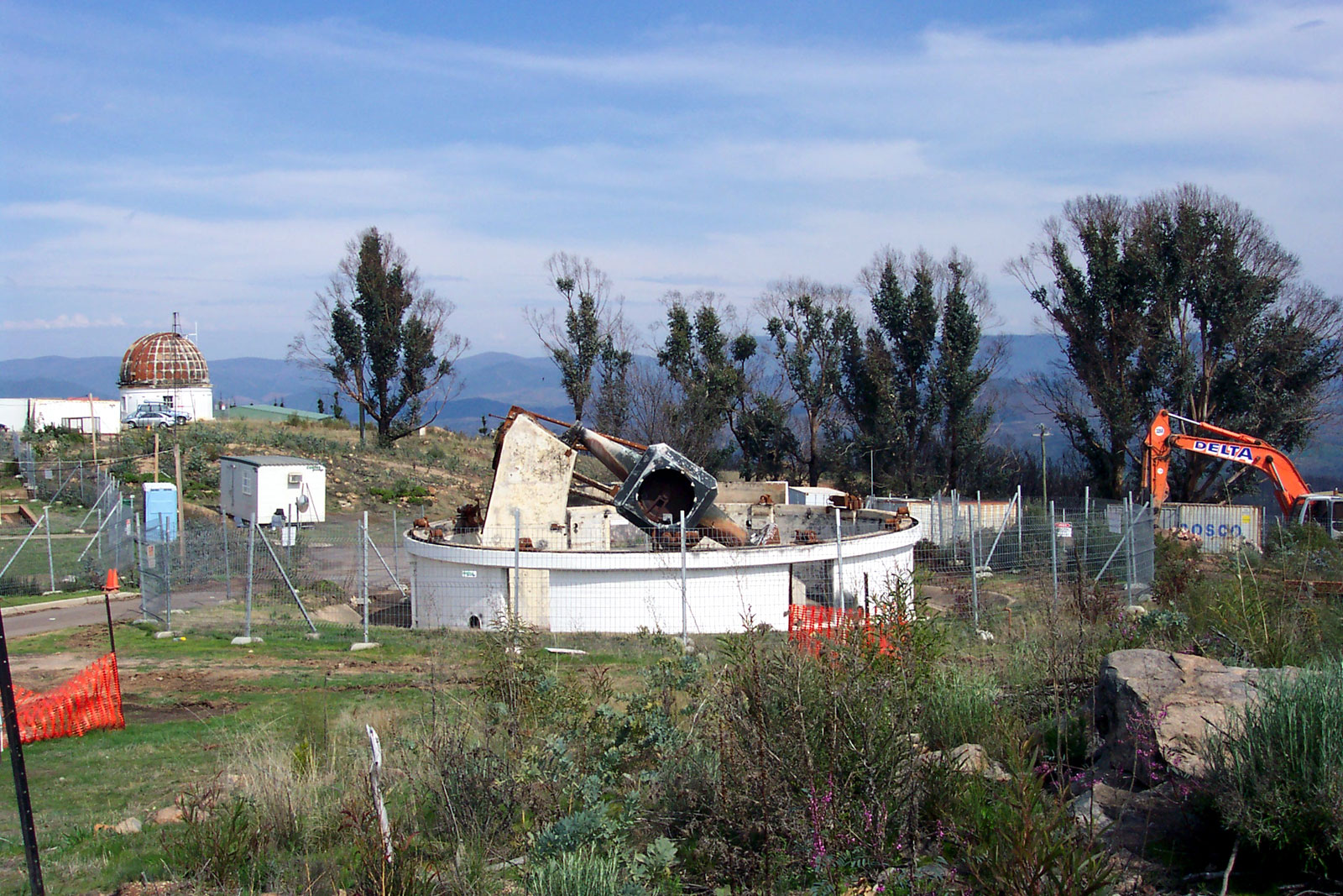 Mount Stromlo Observatory: burnt out remains of telescope. I took this picture on uni trip. Taken by Enoch Lau on 30 September 2004. As a courtesy, please let me know if you alter this image or this image description page. Original filename was 100_3367.JPG.